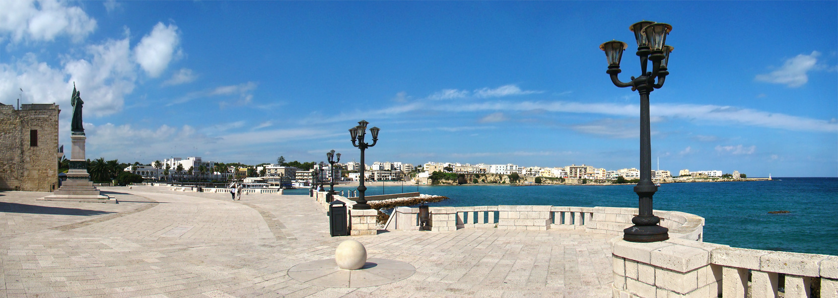 Otranto, Apulia, Italy. The belvedere along Lungomare degli Eroi.